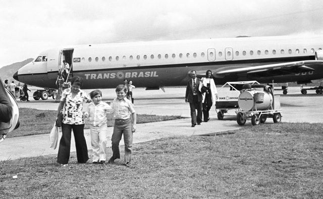 vista do pátio em 1970 (Alexandre e Mário)